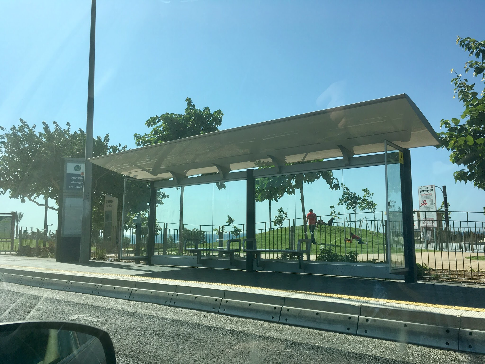 MetStat